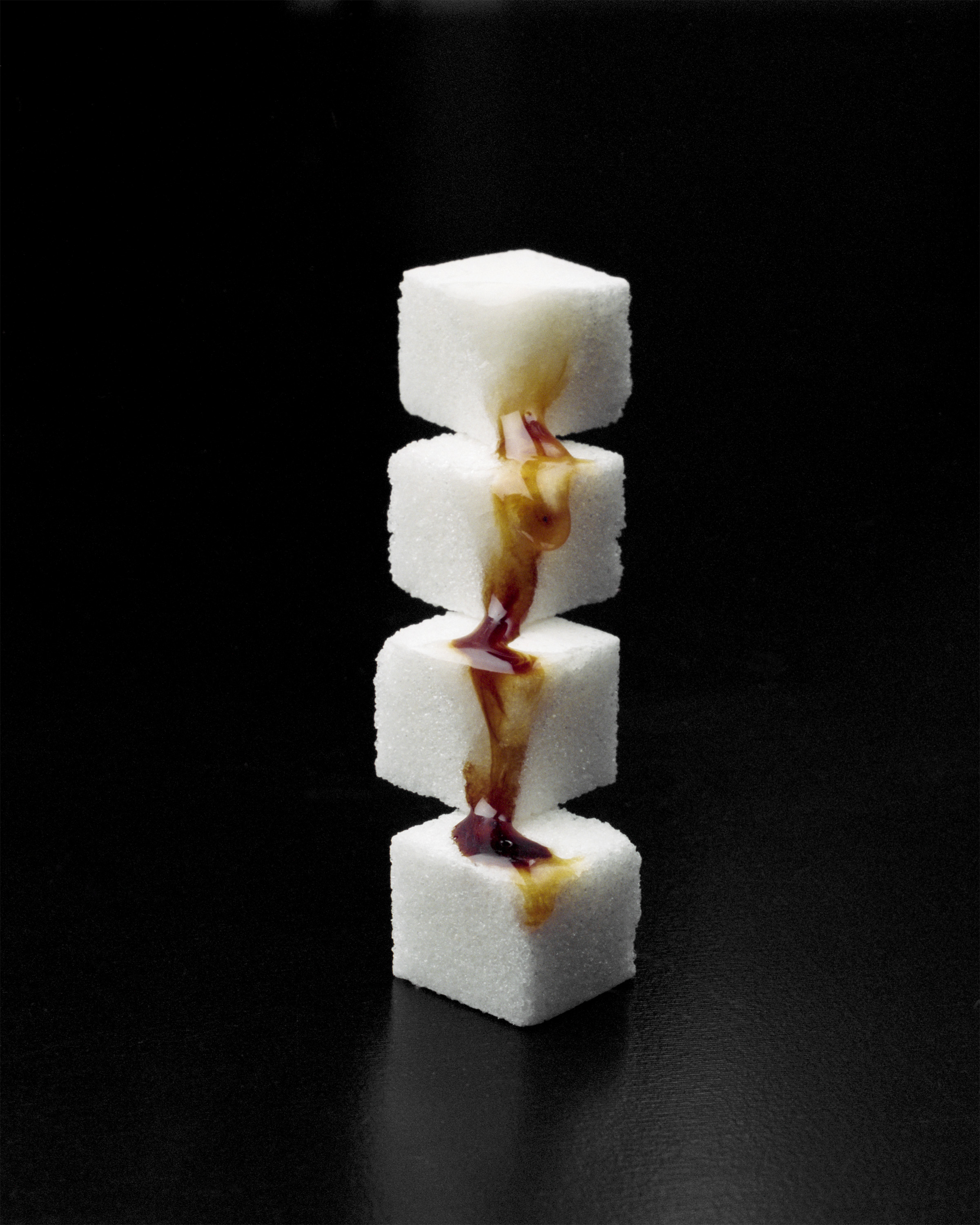 A stack of sugar cubes have been burned and now connect to one another by the carmelization that has formed.